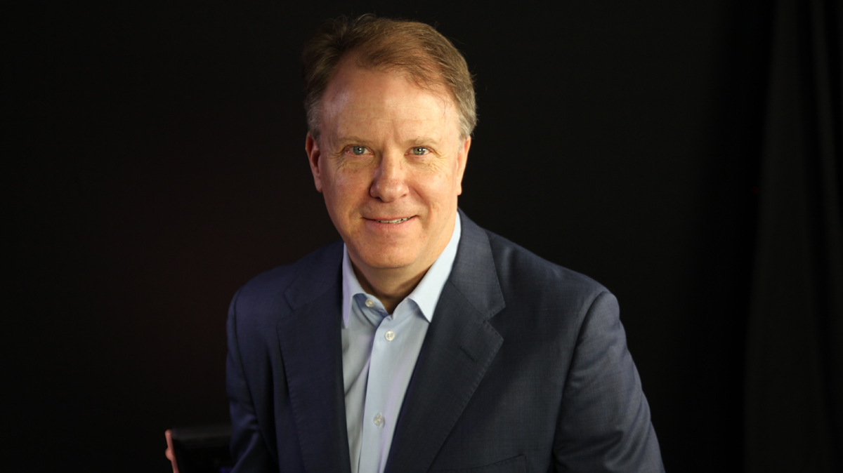 Joe Manning 2019